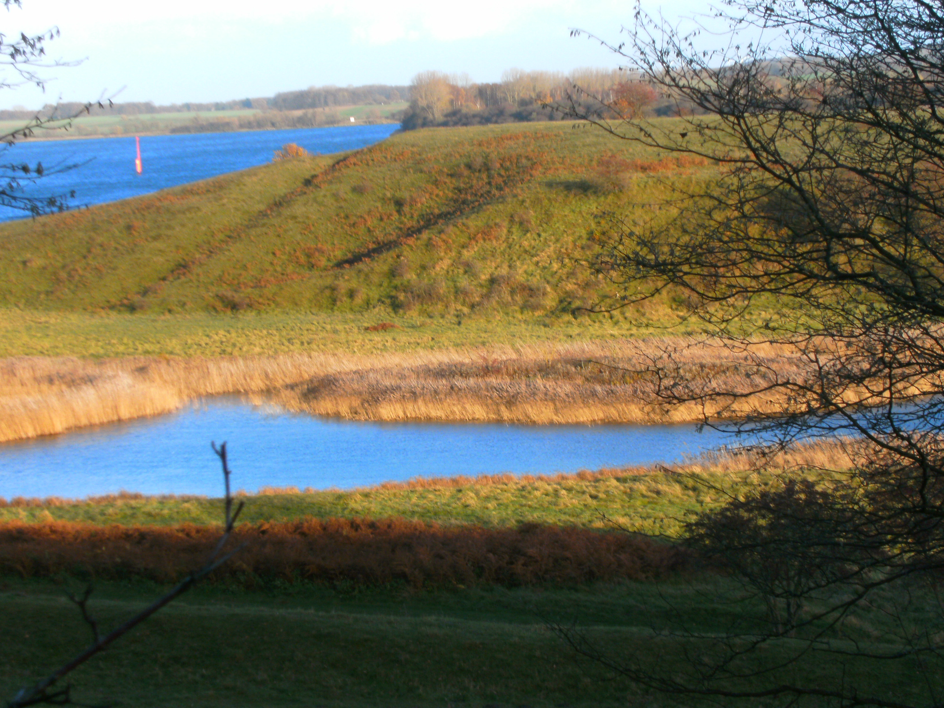 Lübeck, Germany, Dummersdorfer Ufer. View on pond and river Trave.